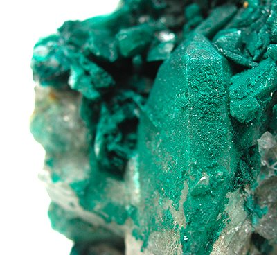 Pseudomalachite, Quartz Locality: Old Gunnislake Mine, Gunnislake Area, Callington District, Cornwall, England, UK (Locality at ) Size: small cabinet, 6.2 x 4.6 x 2.1 cm Pseudomalachite on Quartz A crystal druse of lustrous, emerald green, pseudomalachite has formed on colorless, quartz crystals, to 2.5 cm in length. This is an oldtime specimen from the heart of Cornwall. Most unusual - I have not seen another